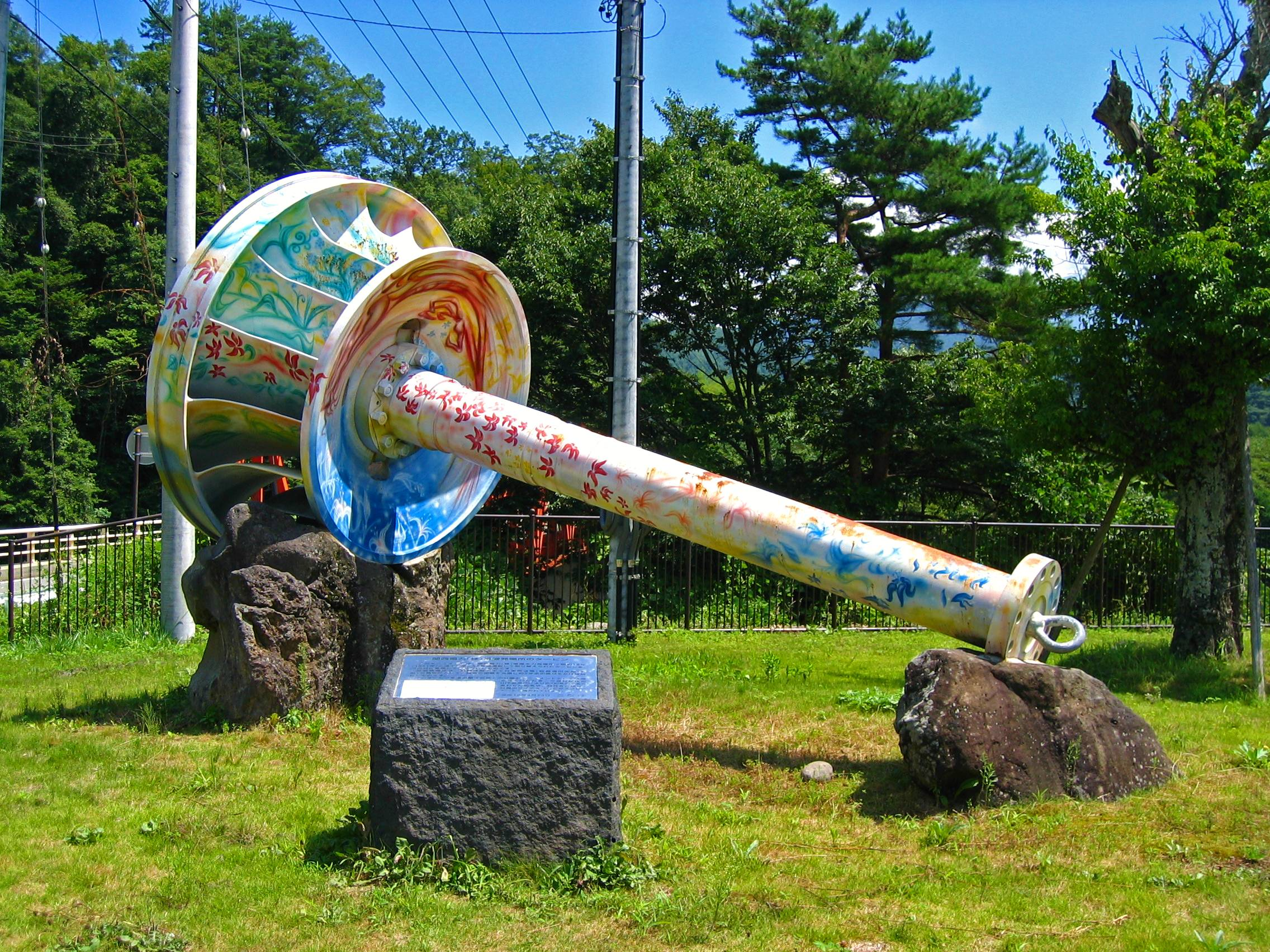 A turbine runner for Tokiwa power station (Exhibited in Michinoeki Mitake).